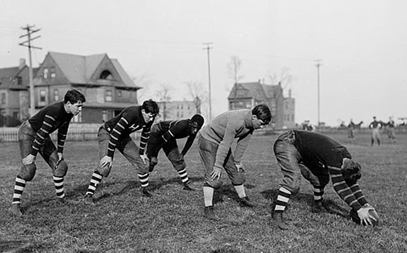 Five members of the Hyde Park High School football team in position to begin a play on an athletic field in the Hyde Park community area of Chicago, Illinois. Three players in position behind the quarterback and center. The Quarterback is likely Walter Eckersall. The African American is Samuel L. Ransom. Houses are visible in the background. This photonegative taken by a Chicago Daily News photographer may have been published in the newspaper. Cited as: SDN-001000, Chicago Daily News negatives collection, Chicago History Museum.